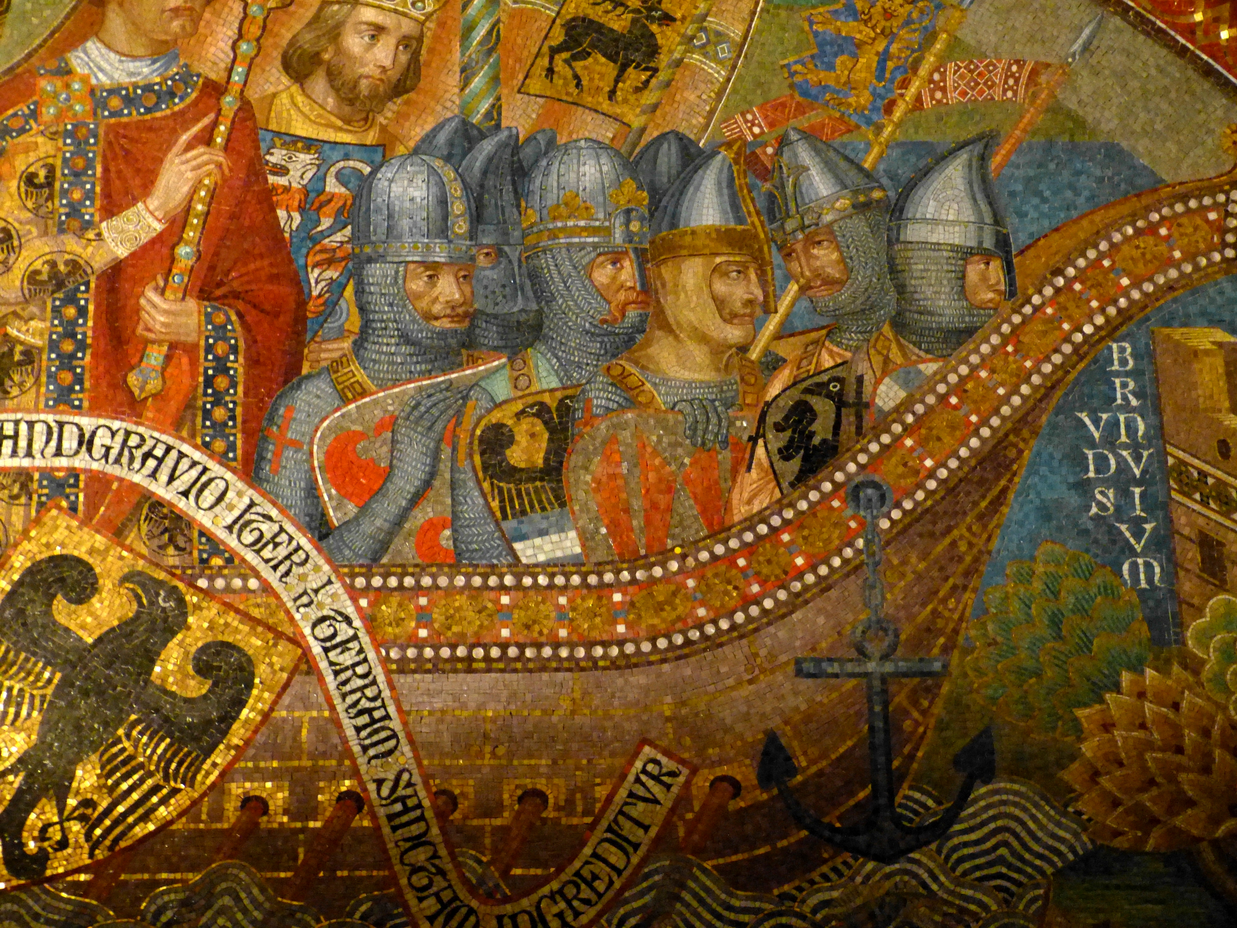 Wartburg ( Eisenach/Thuringia ). Chamber of Elisabeth of Hungary - Life of Elisabeth of Hungary on mosaics ( 1902-1906 ): Elisabeth' husband Louis IV of Thuringia on crusade with Frederick II, Holy Roman Emperor.